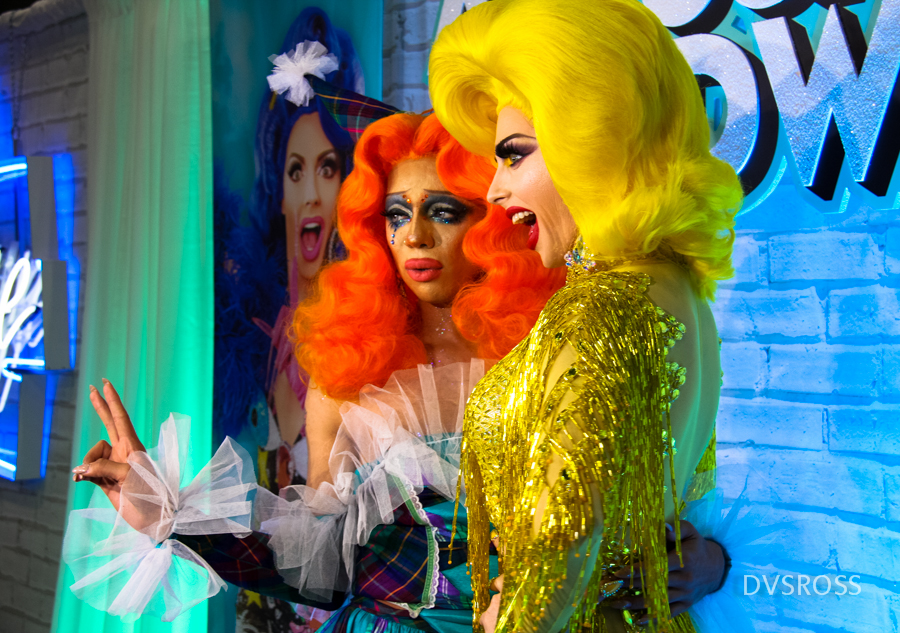 Aja and Alyssa Edwards at RuPaul's DragCon LA 2018 (Notes added)